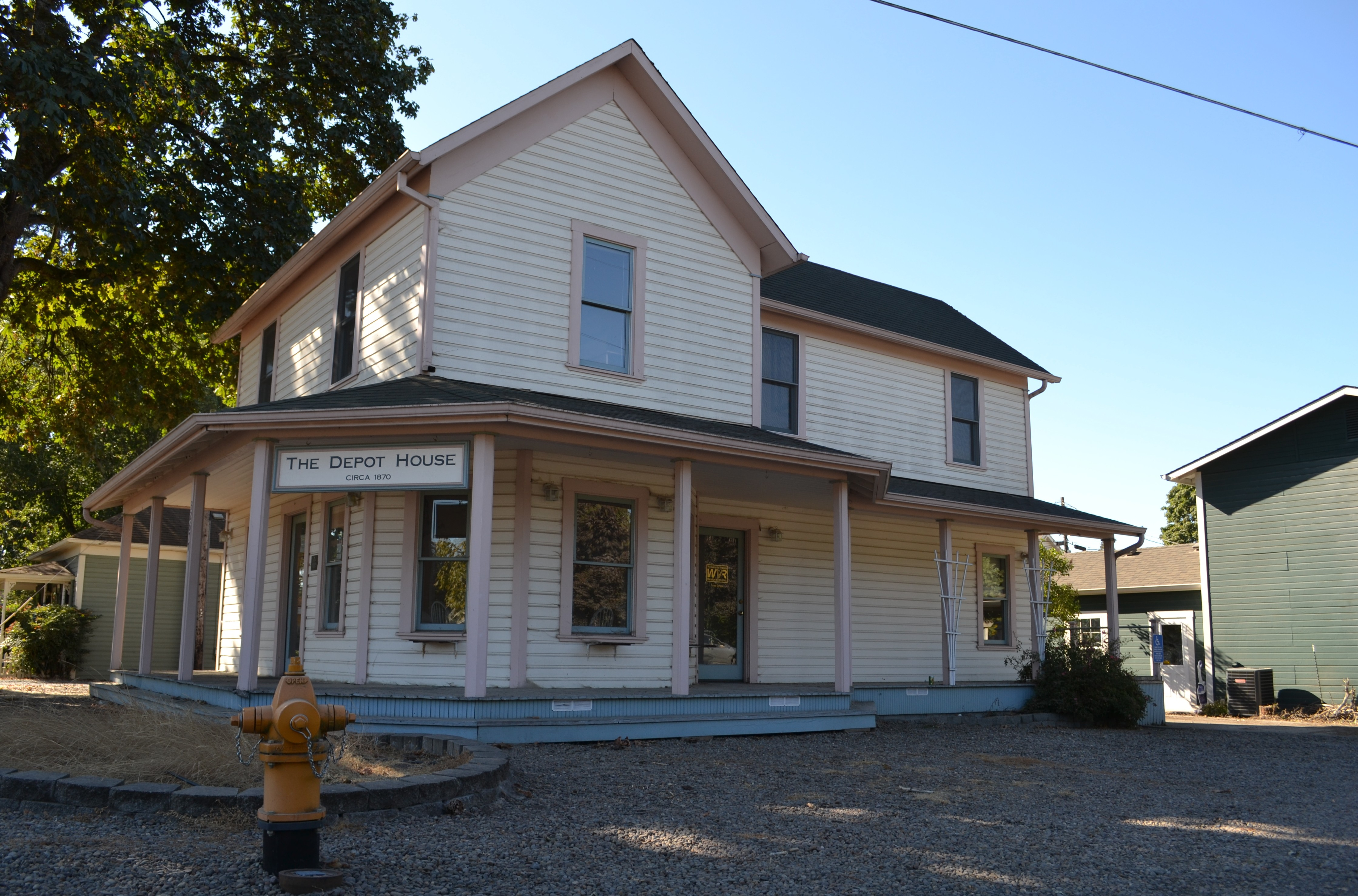 Smith House - Depot House (32677 E. McKenzie) 1870